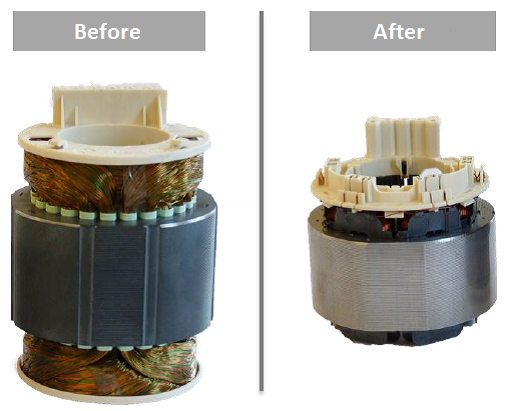 Statoren mit unterschiedlicher Wicklungstopologie en